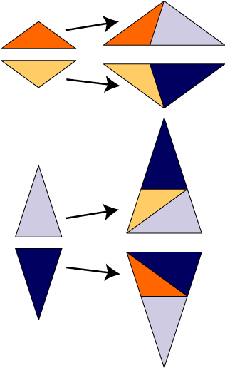 Apart from the Penrose rhomb tilings (and their variations), this is a classical candidate to model 5-fold (resp. 10-fold) quasicrystals. The inflation factor is - as in the Penrose case - the golden mean, sqrt(5)/2 + 1/2. The prototiles are Robinson triangles, but these tilings are not mld to the Penrose tilings. The relation is different: The Penrose rhomb tilings are locally derivable from the Tübingen Triangle tilings. These tilings were discovered and studied thoroughly by a group in Tübingen, Germany, thus the name.[1] Since the prototiles are mirror symmetric, but their substitutions are not, we have to distinct left-handed and right-handed tiles. This is indicated by the colours in the substitution rule and in the patch below. Text by D. Frettlöh